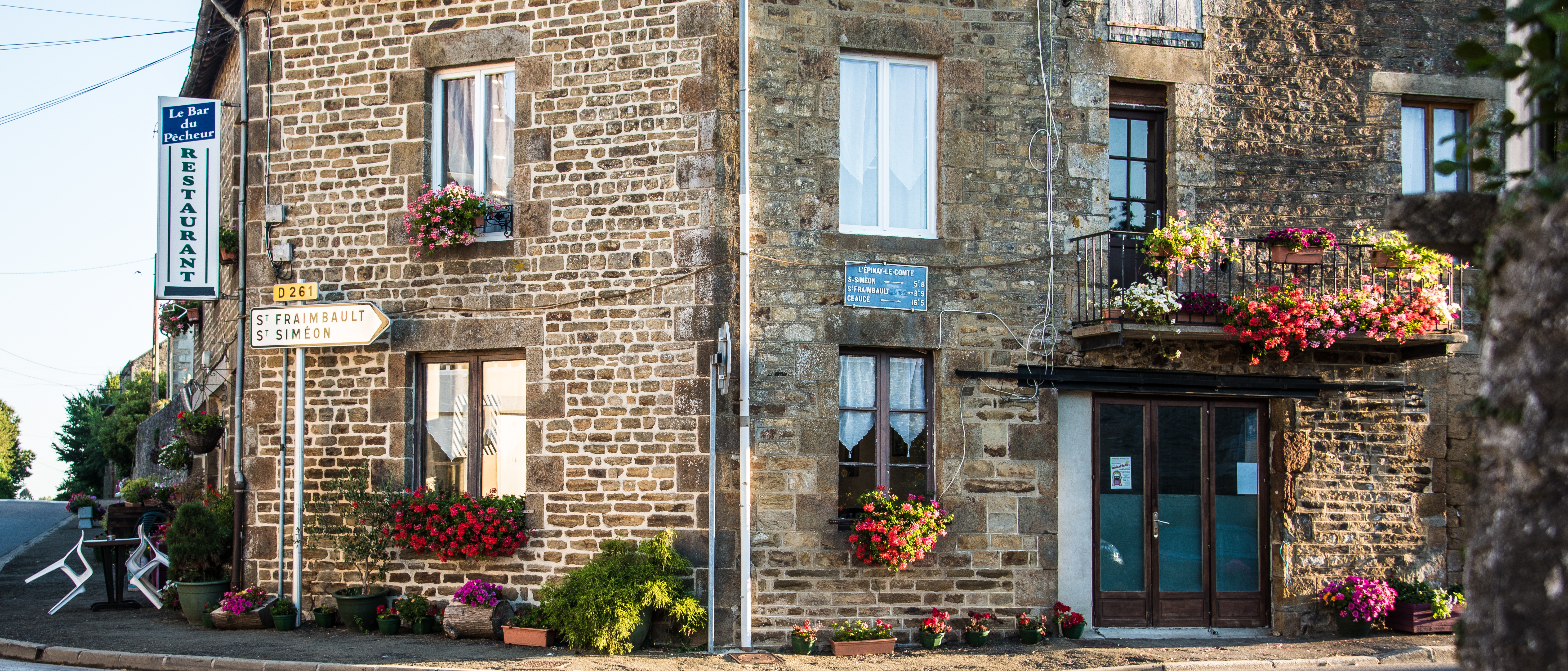 The village bar